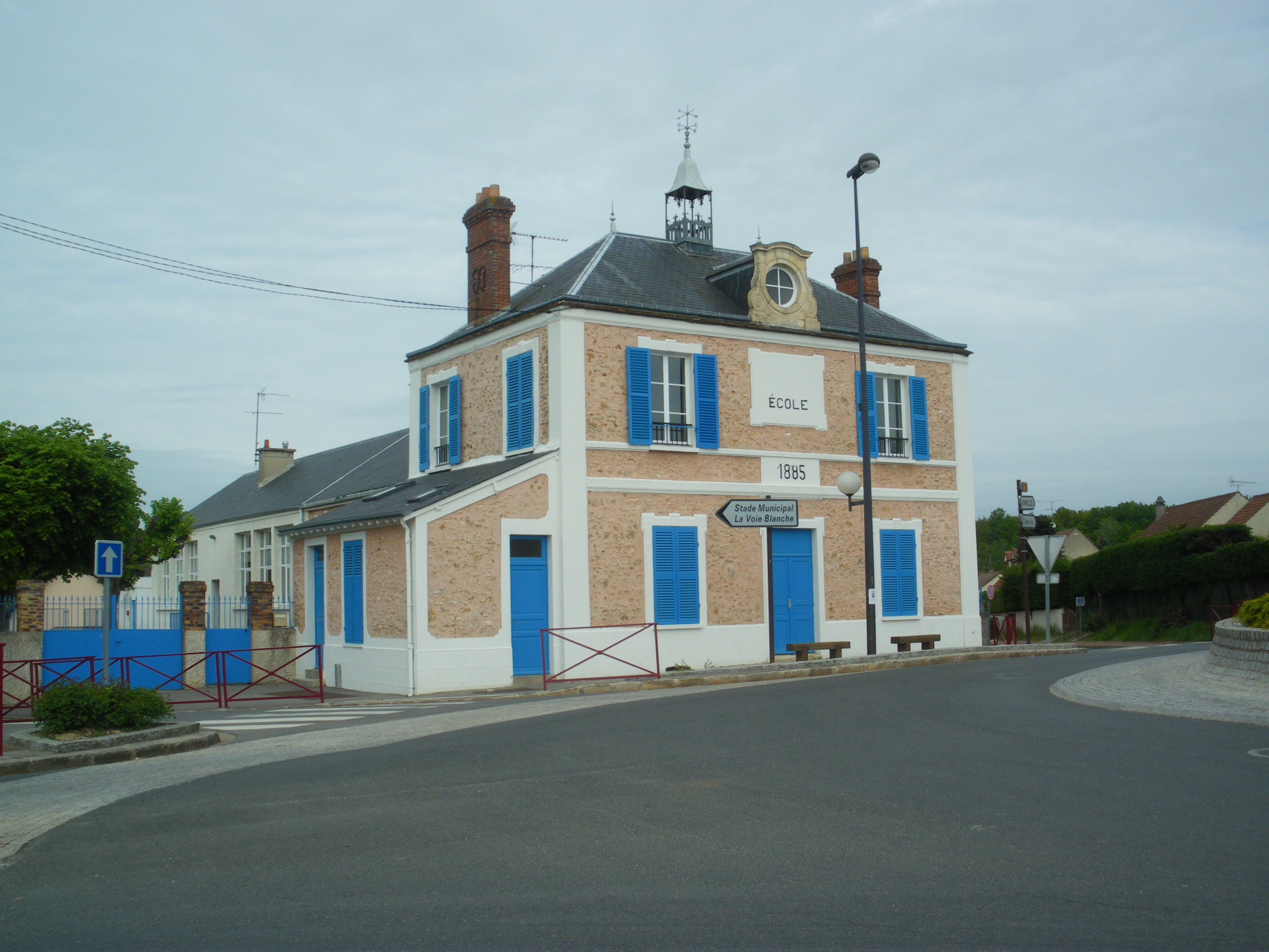 Angervilliers school, Essonne, France